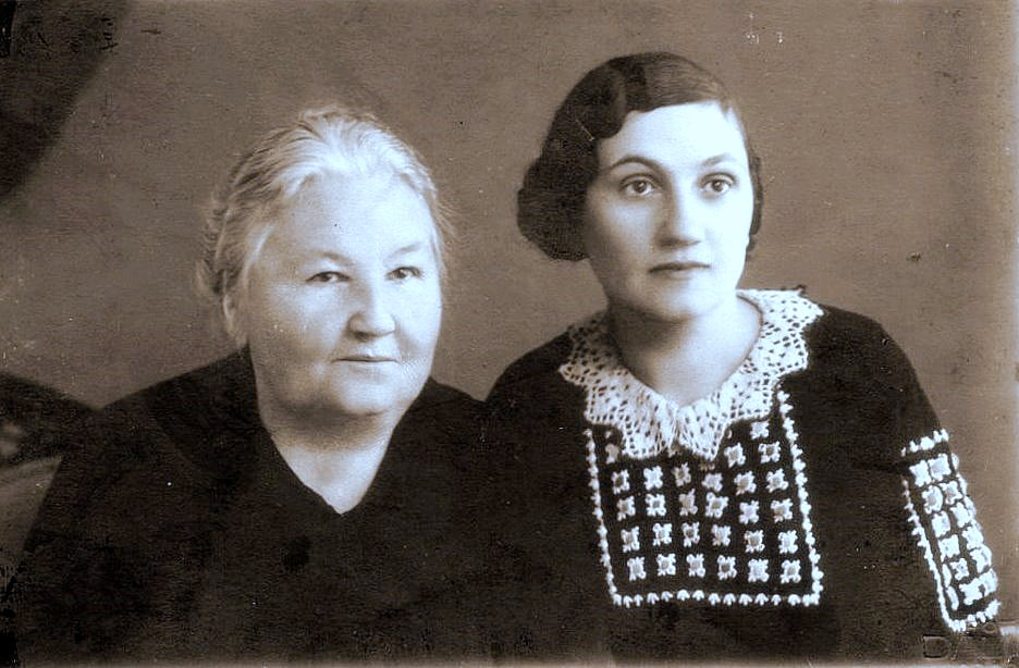 Galántai s mother and grandmother in Nagyvárad